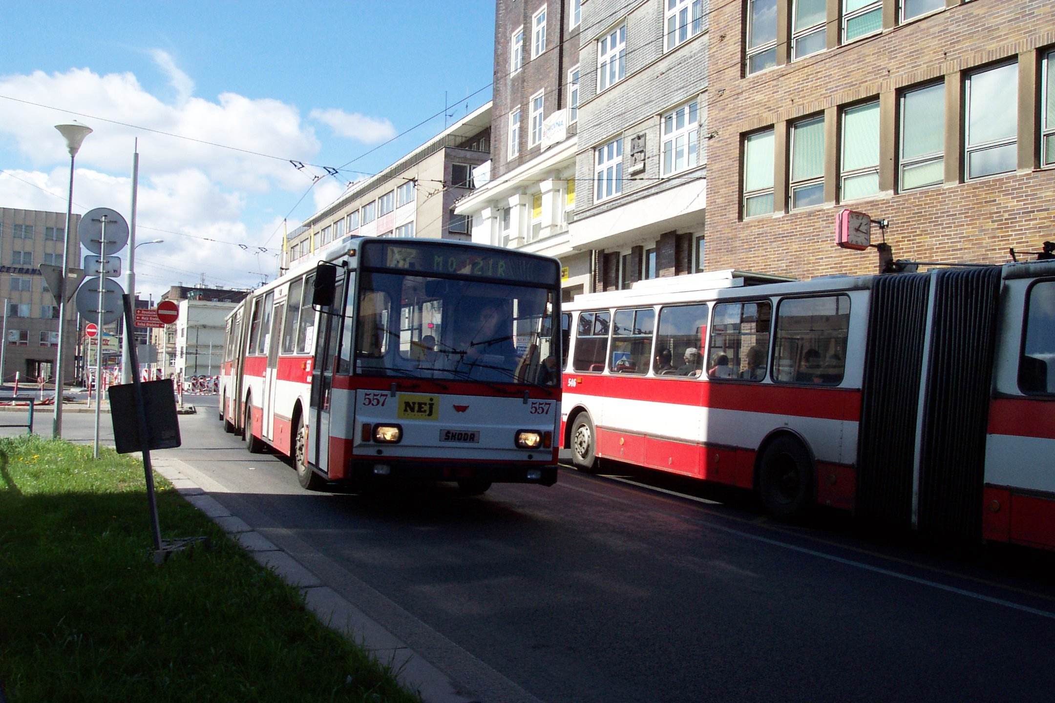 Ústí nad Labem, city centre, trolleybus Škoda 15TrM